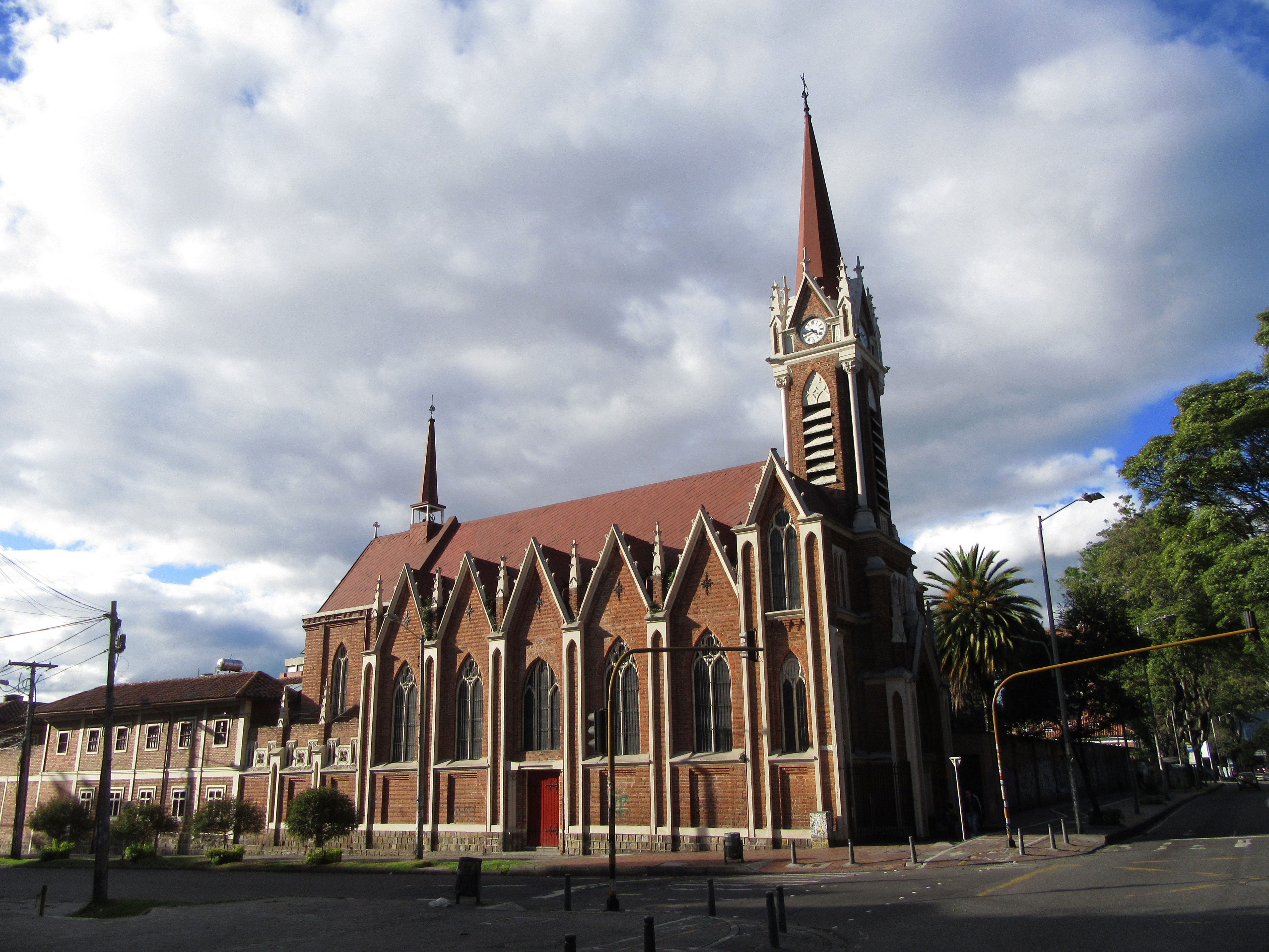 Bogotá